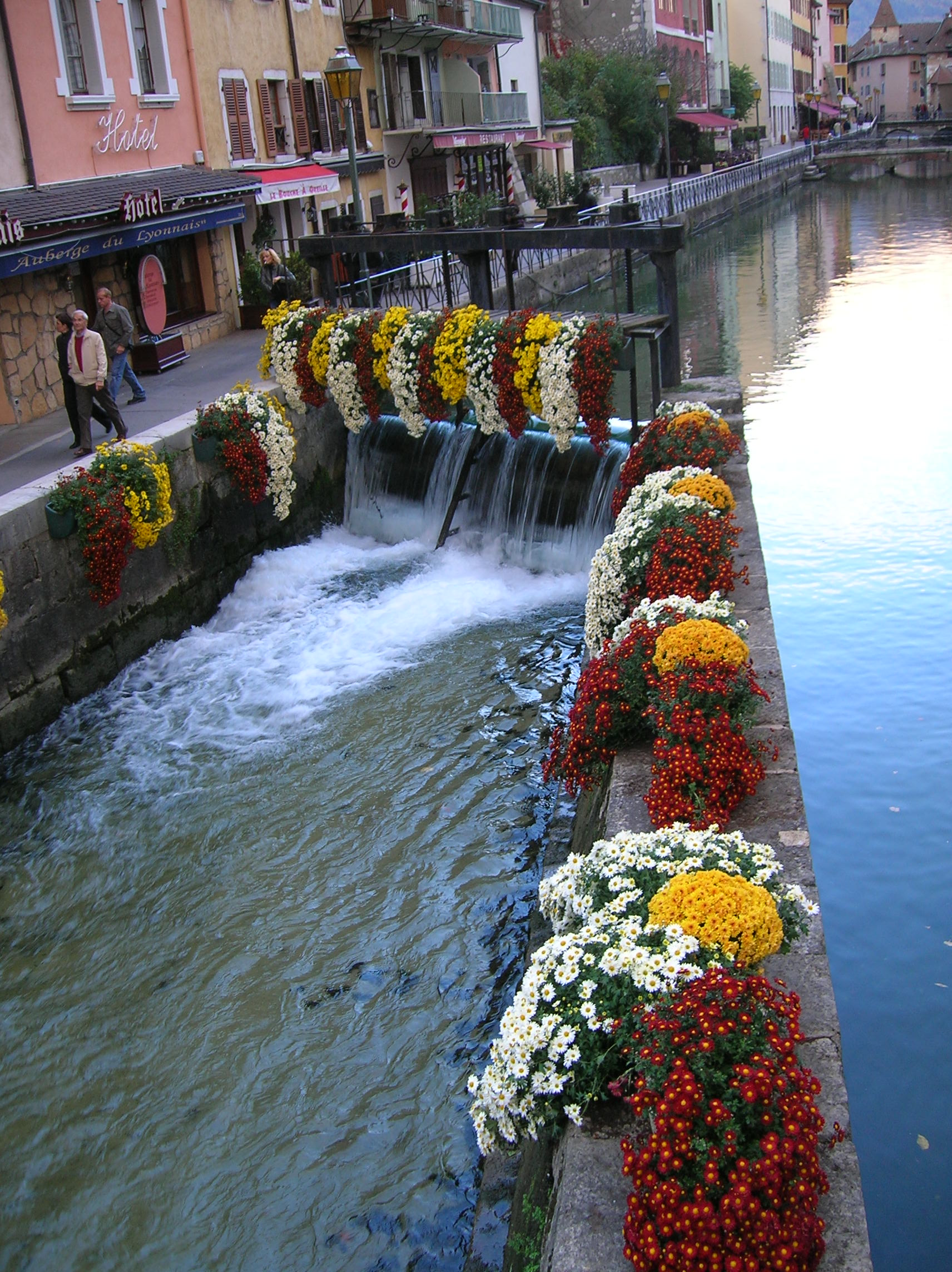 Le Thiou, Annecy, France (river Thiou)